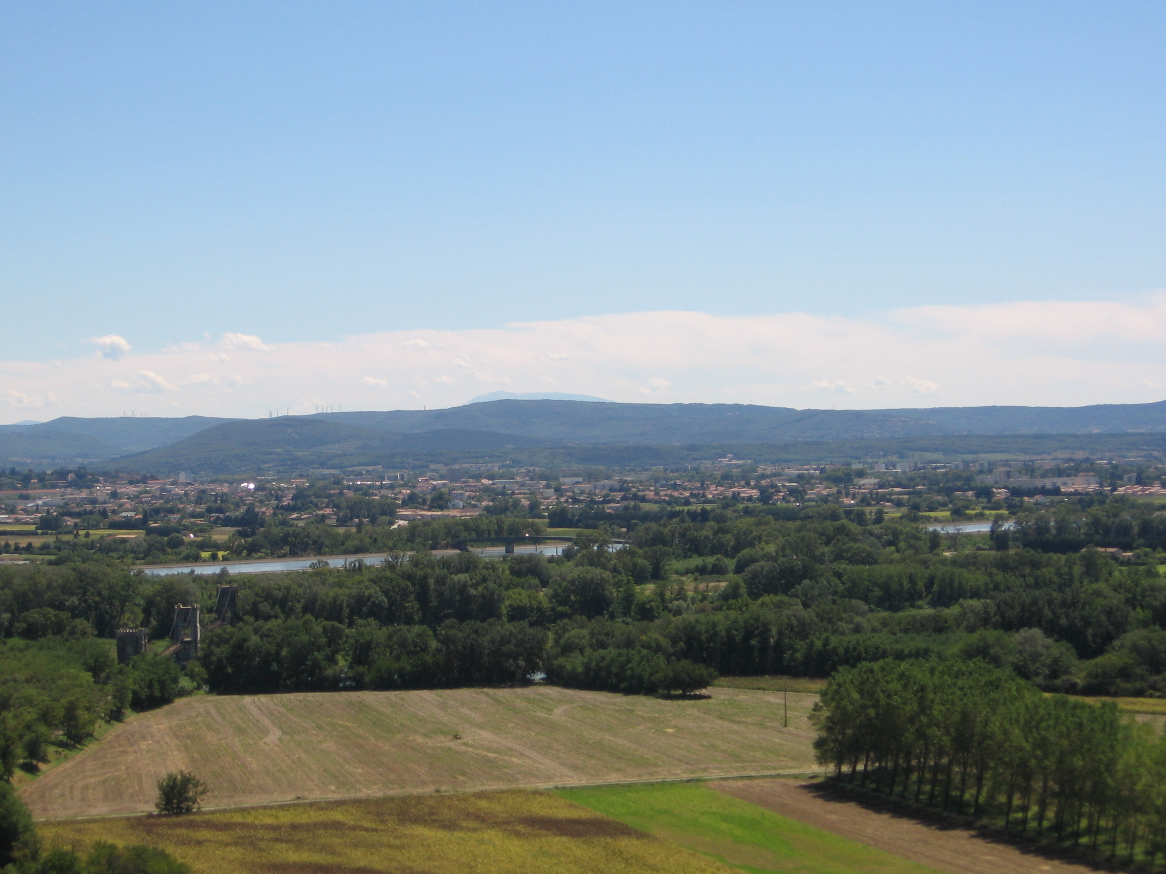 View on Montelimar and the Rhone river, France